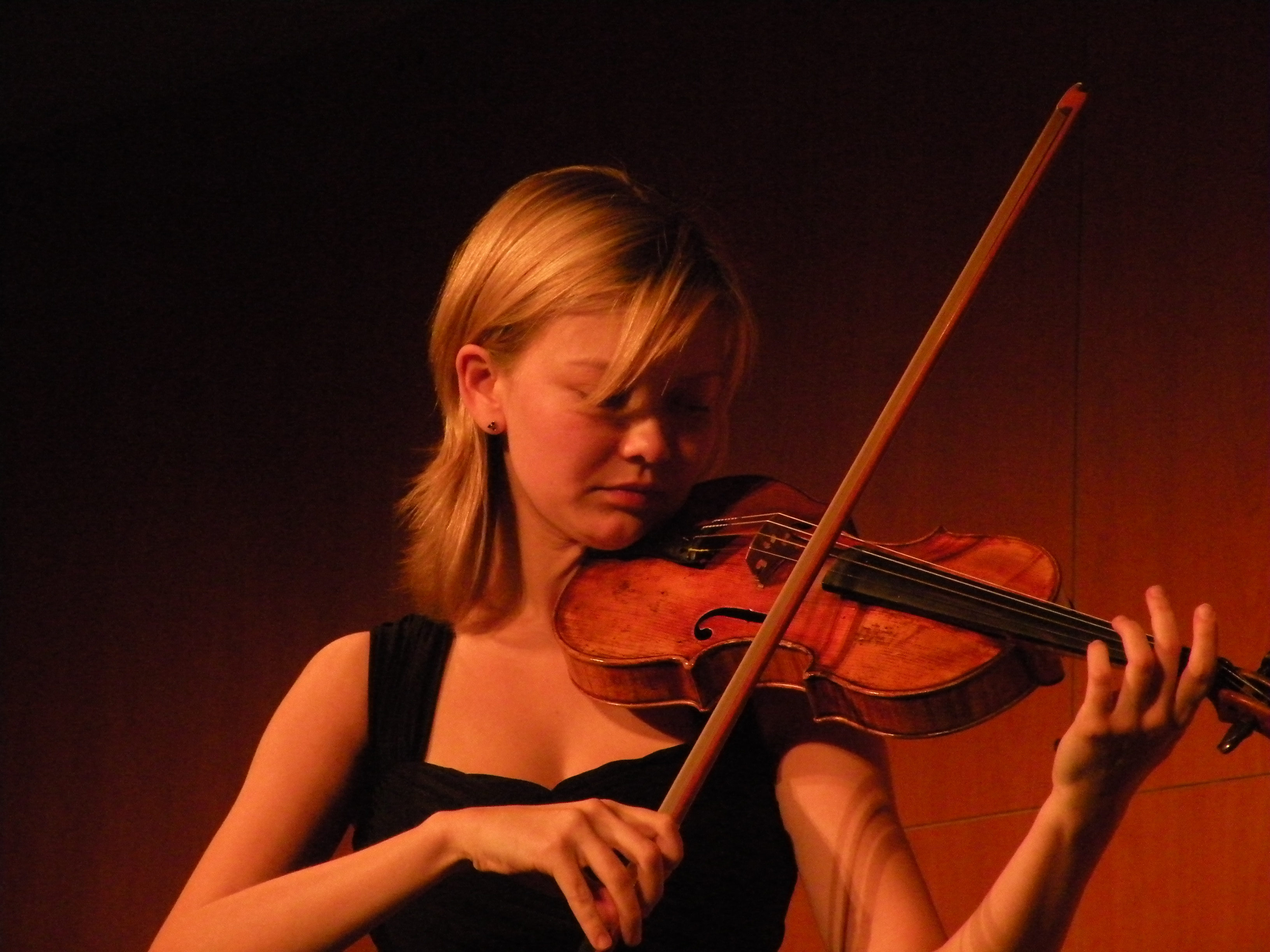 The russian violinist Alina Ibragimova, on 31 January 2009 during La Folle Journée in Nantes.